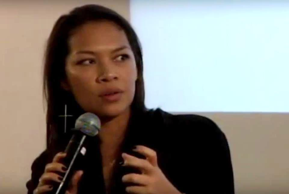 Boekpresentatie Karin Amatmoekrim, 4 febr. 2017